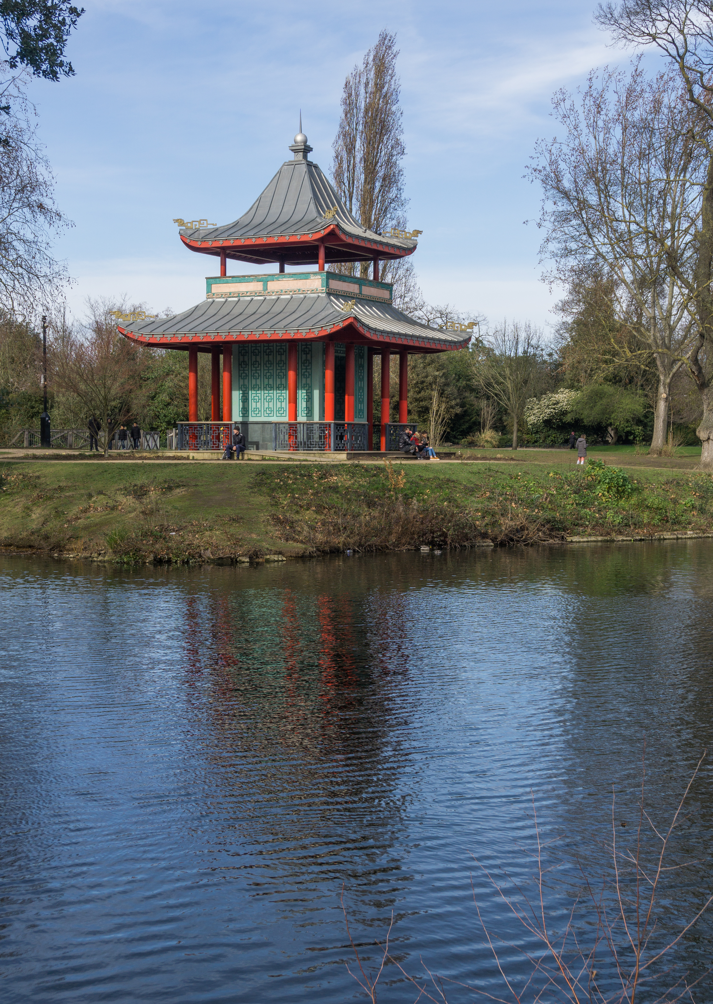 The Chinese Pagoda at Victoria Park, London